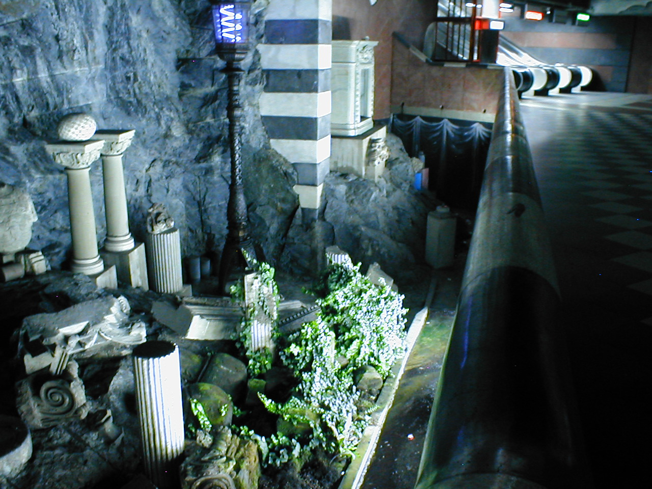 Stockholm Tunnenbana, arts at the station Kungsträdgården